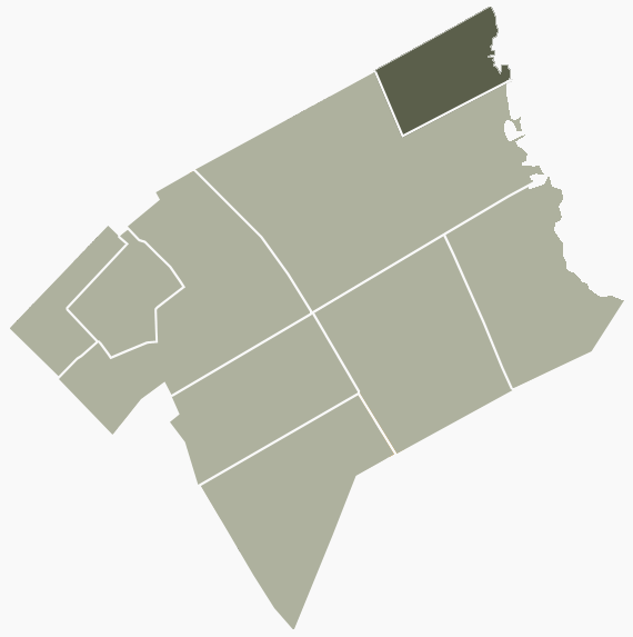 Map of the Vicente López's neighborhood, La Lucila.